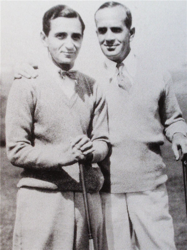 Photo of Al Jolson with Irving Berlin